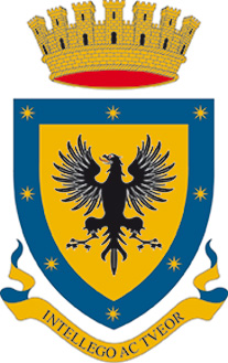 Stemma della Agenzia Informazioni Sicurezza Esterna